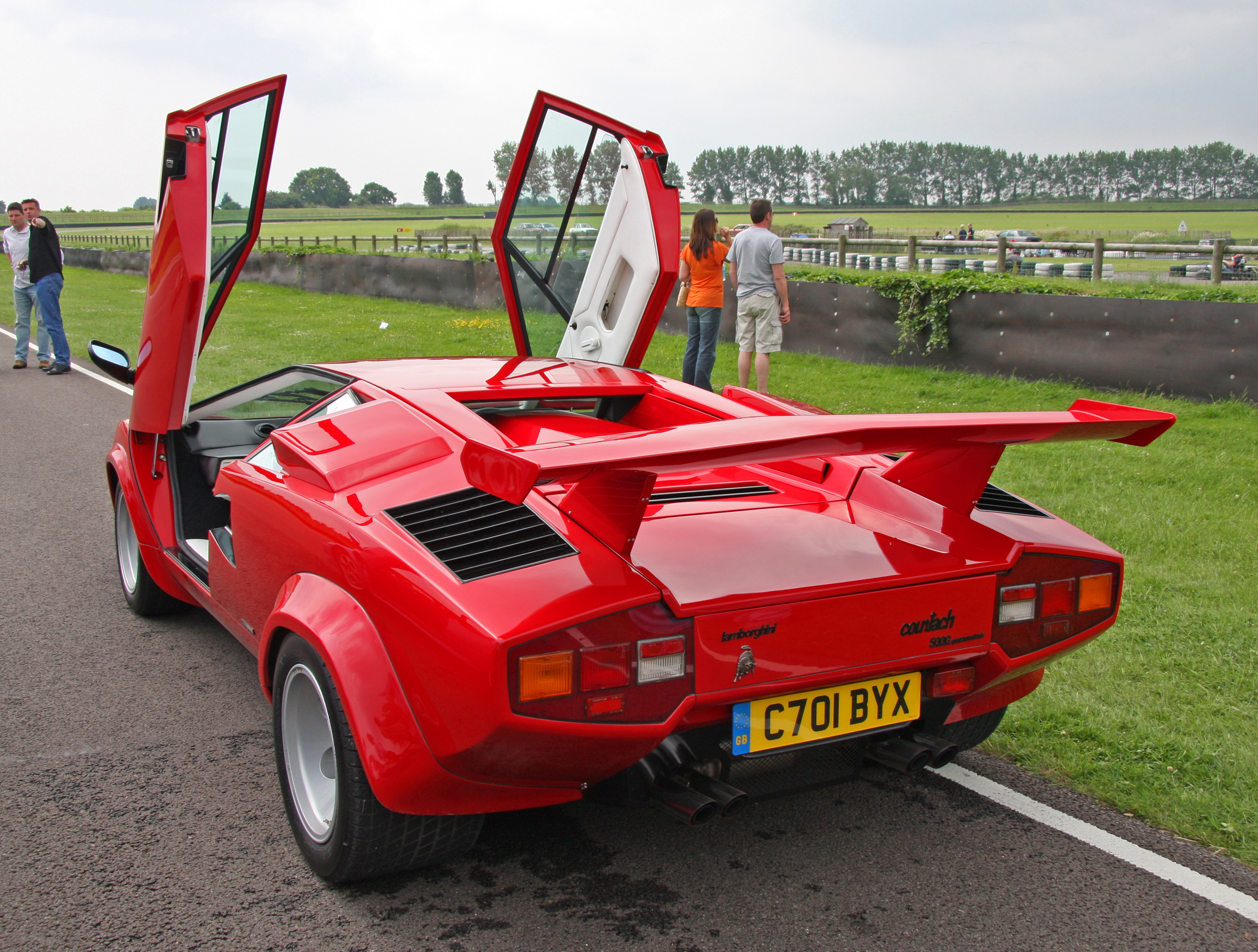 Lamborghini Countach